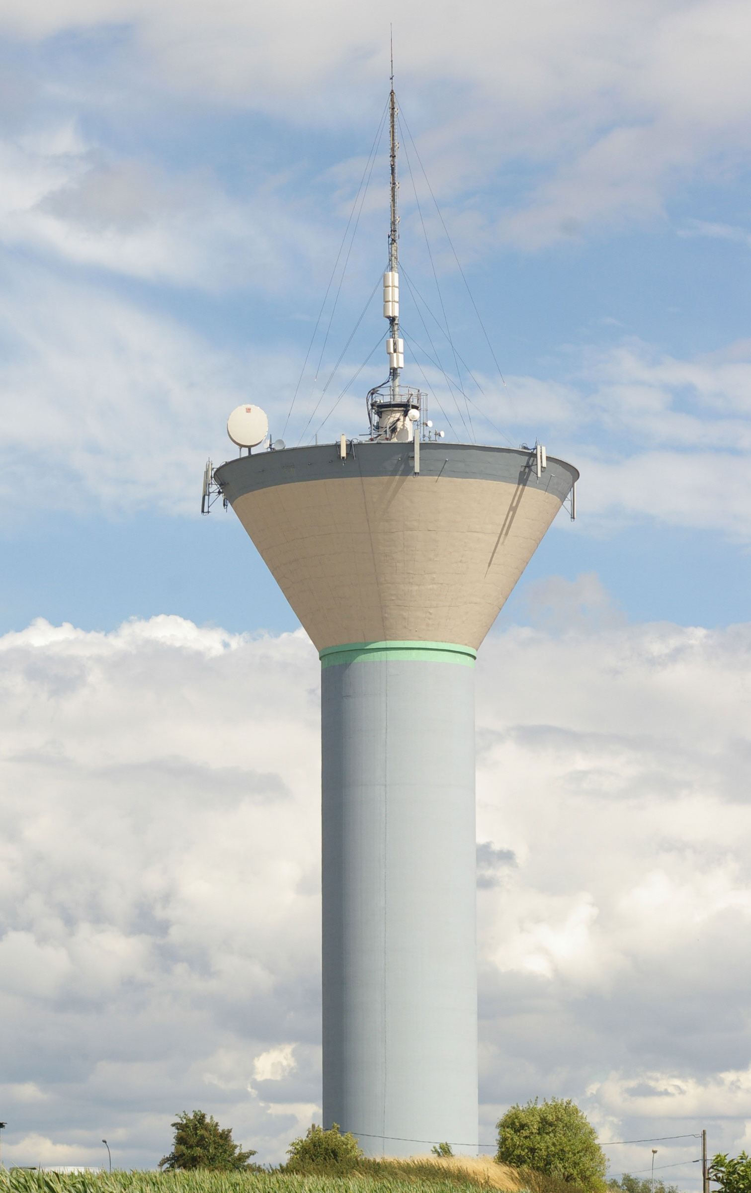 Transmitter Valenciennes Marly, departement Nord, region Nord-Pas-de-Calais